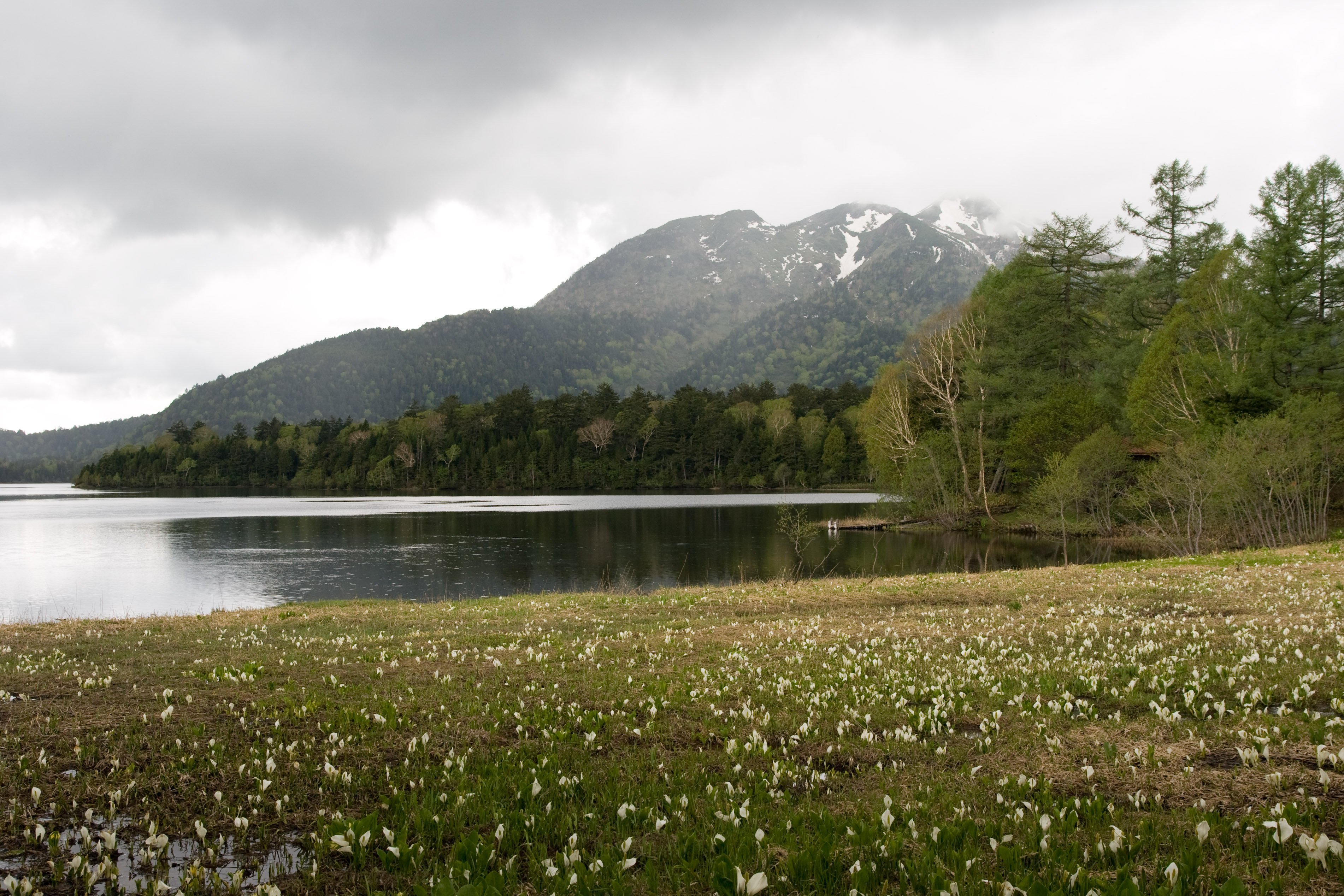 Oze-numa Marsh (Oze-numa 尾瀬沼), Katashina Vill., Gunma Pref., Japan